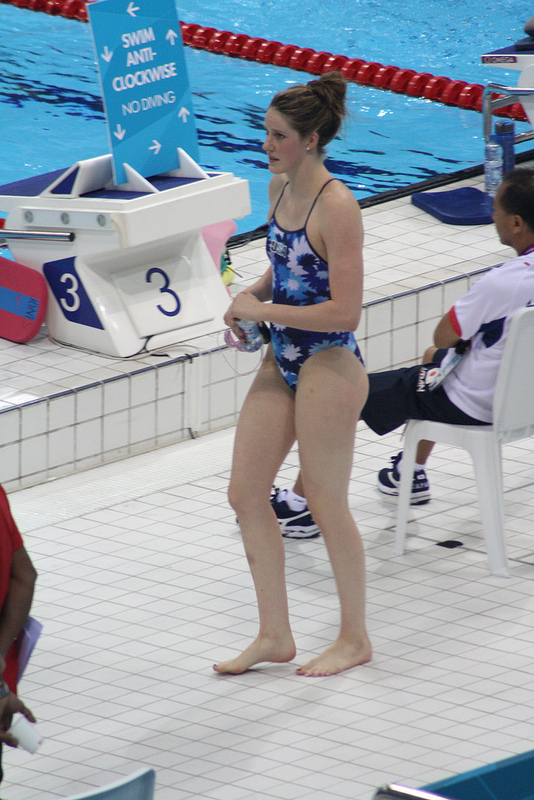 Missy Franklin during warm up at the Aquatics Centre.